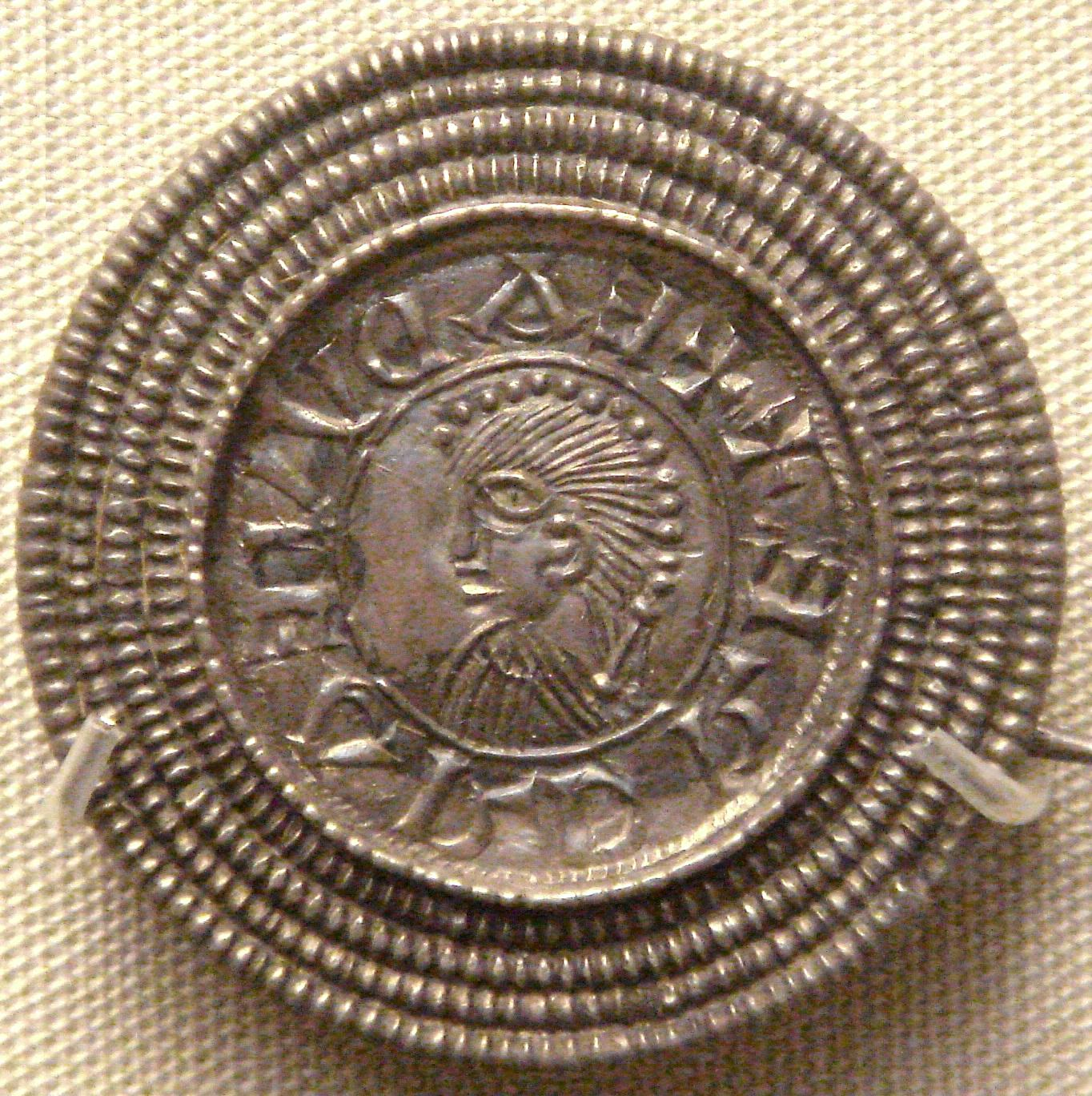 An Anglo-Saxon coin brooch (silver), dated c. 920, imitating a coin of Edward the Elder. Discovered in Rome, now in the British Museum. literature: Kevin Leahy, 'Anglo-Saxon coin brooches', in: Coinage And History in the North Sea World, C. AD 500-1250 (2006), p. 279